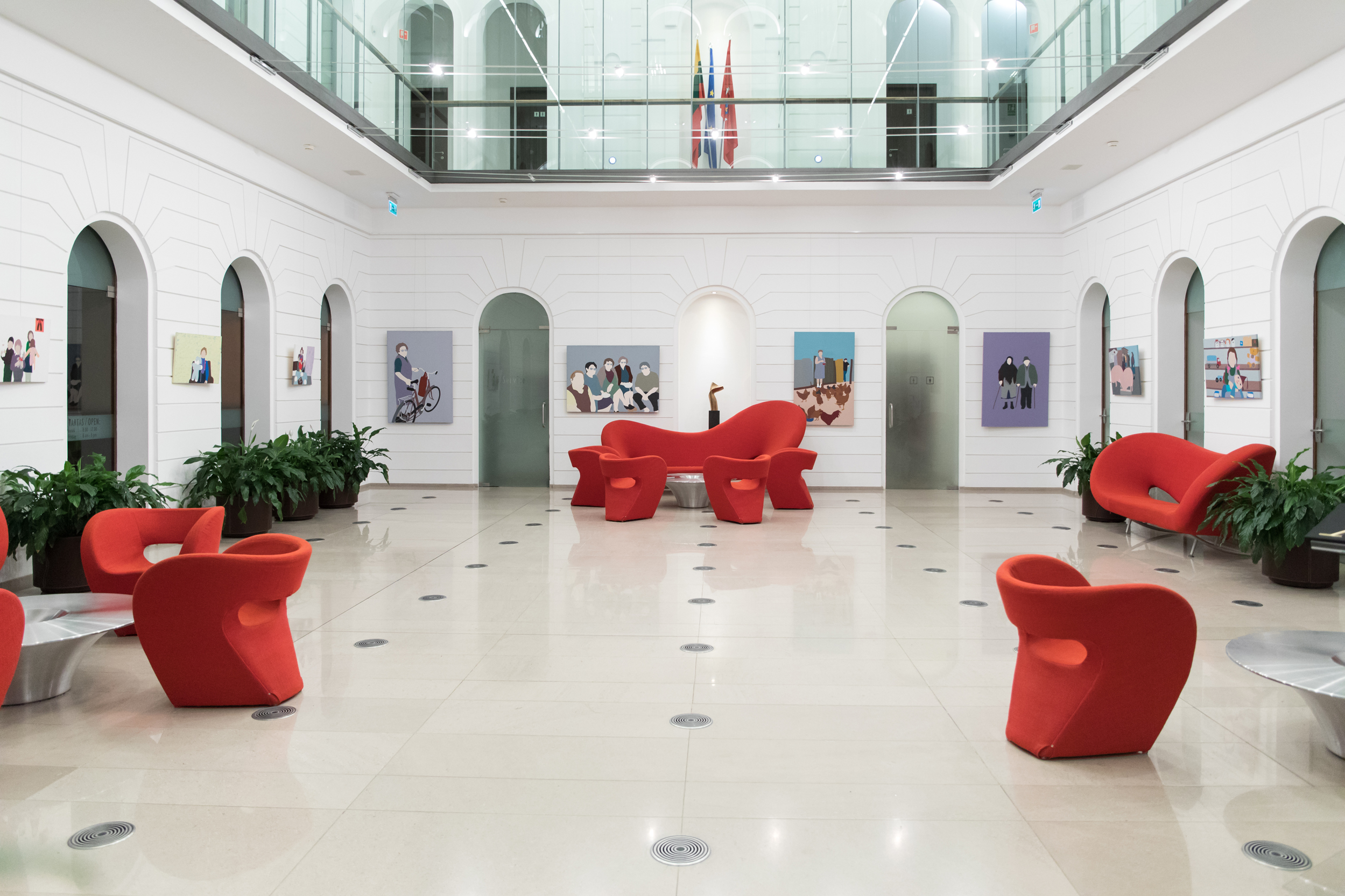 A Deák-Palota átriuma 2018-ban